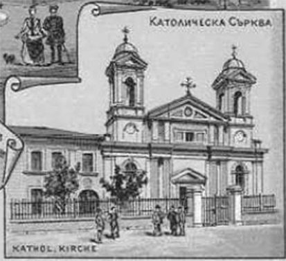 The Roman Catholic Cathedral of Saint Joseph in Sofia, Bulgaria, prior to its destruction in Allied bombing raids during World War II